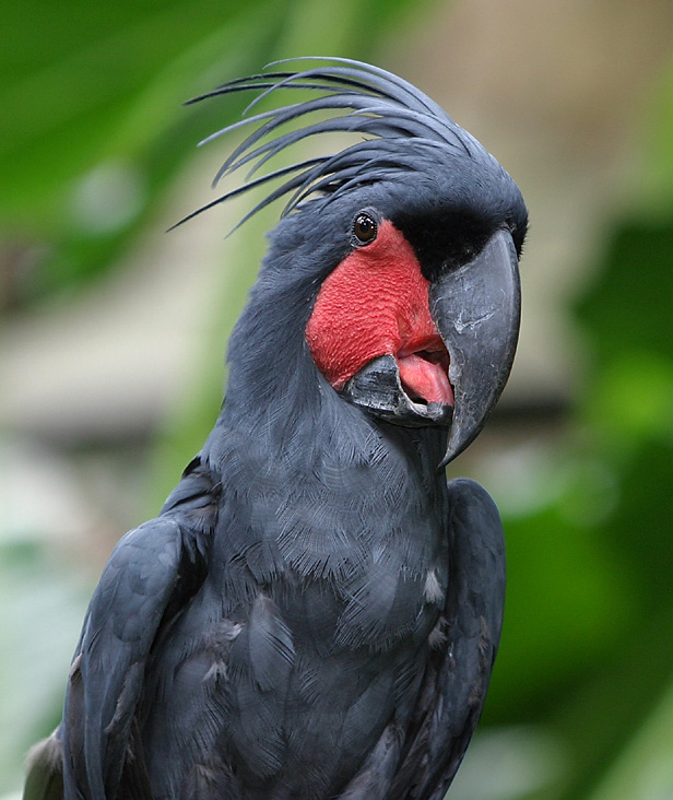 Palm Cockatoo - Jurong BirdPark, Singapore